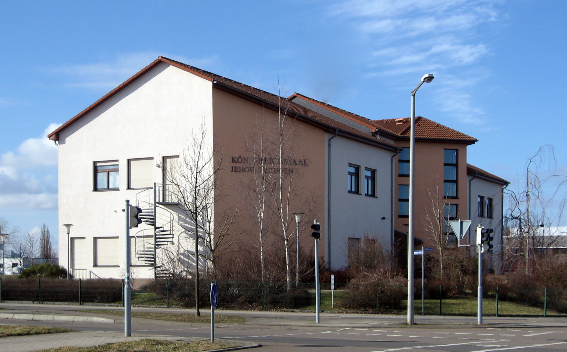 Jehovah's Witnesses Kingdom Hall at Leipzig, Heiterblickstrasse 32